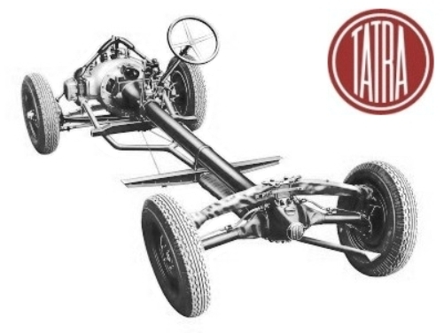 Typical undercarriage for passenger cars Tatra Photo Archive: O.Ertl